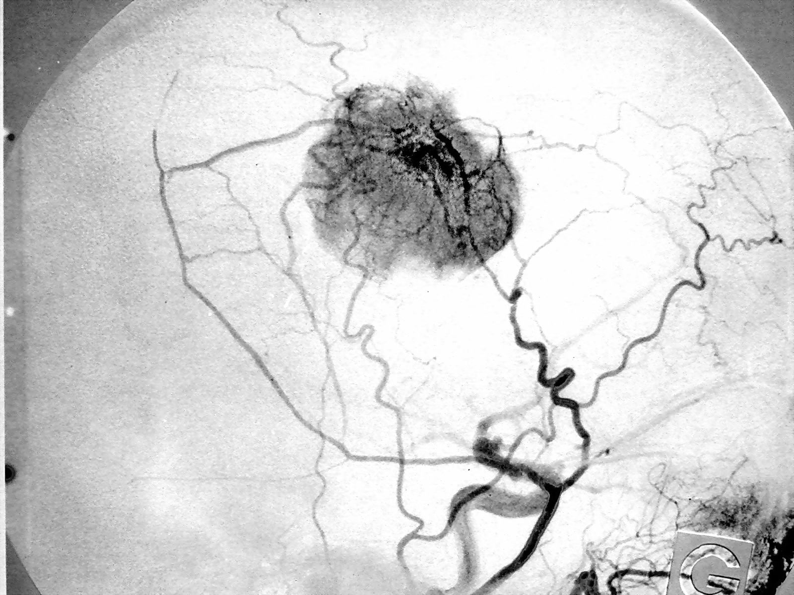 vascular imaging of caroitidis externa : Meningioma (tumor)